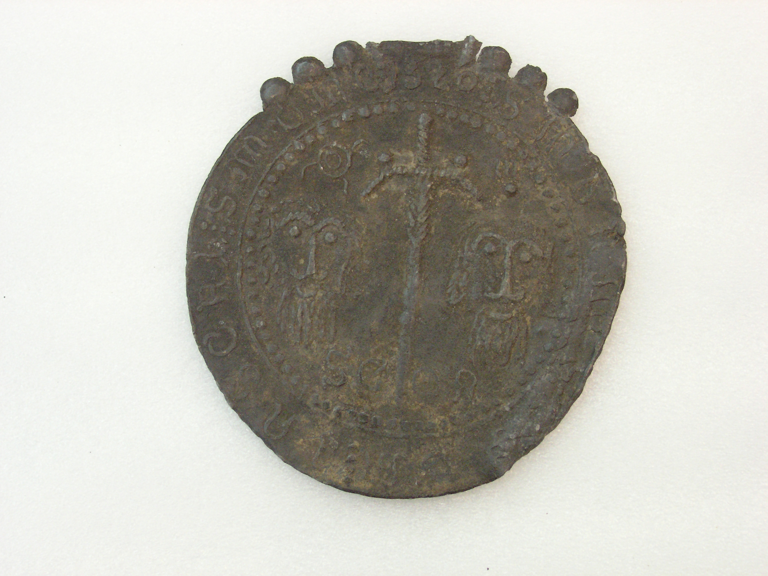 Plaque (figure), (Billy and Charley); cast lead seal a forgery, one of many such, made by two imposters during the excavations for Thames Embankment. "made during excavations for the Thames Embarkment"; forgery of the type know as Billies and Charlies; counterfeit medieval plaque manufactured during the excavations of the Thames Embankment" (note on M530)